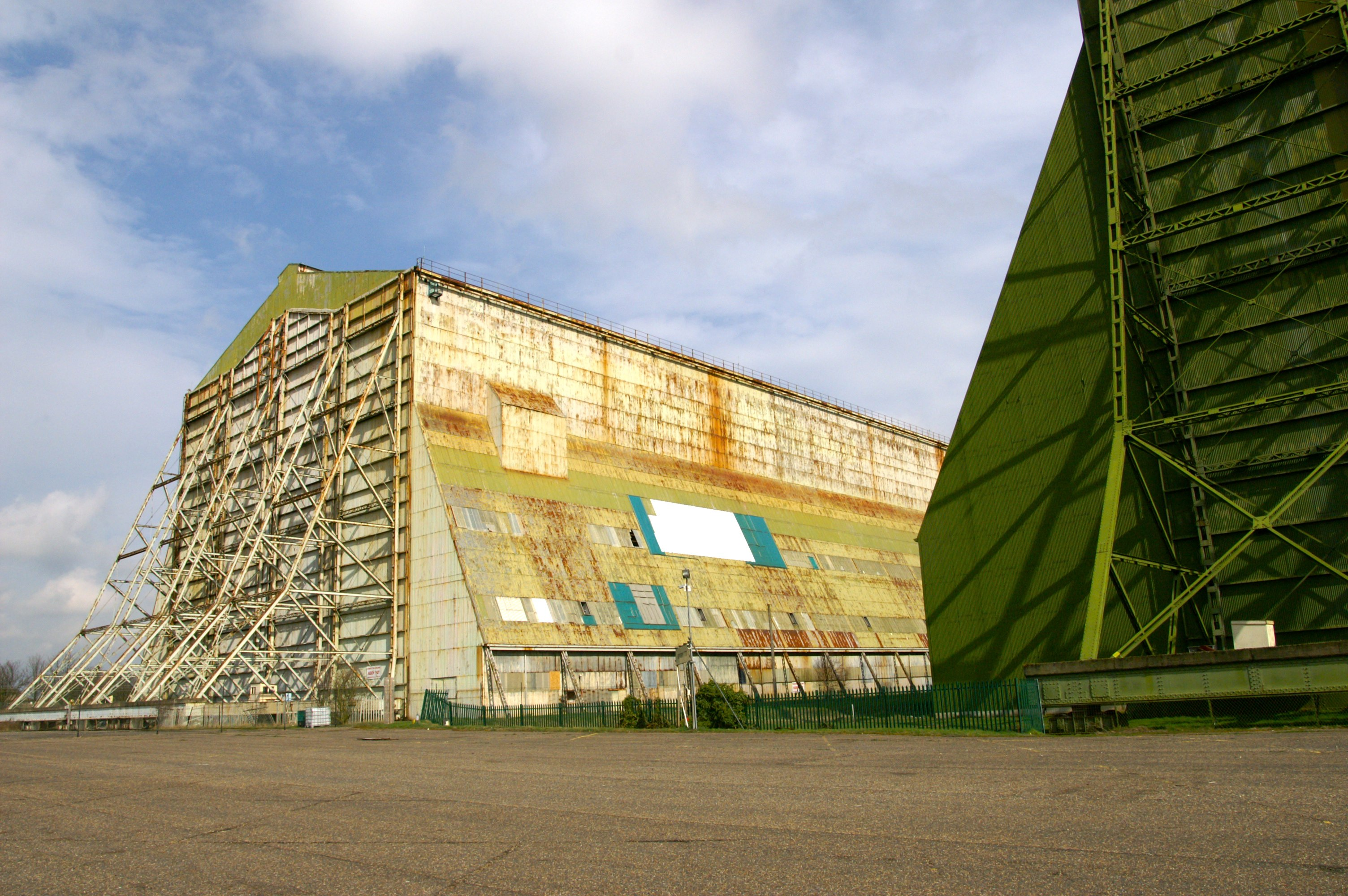 Cardington, Bedfordshire